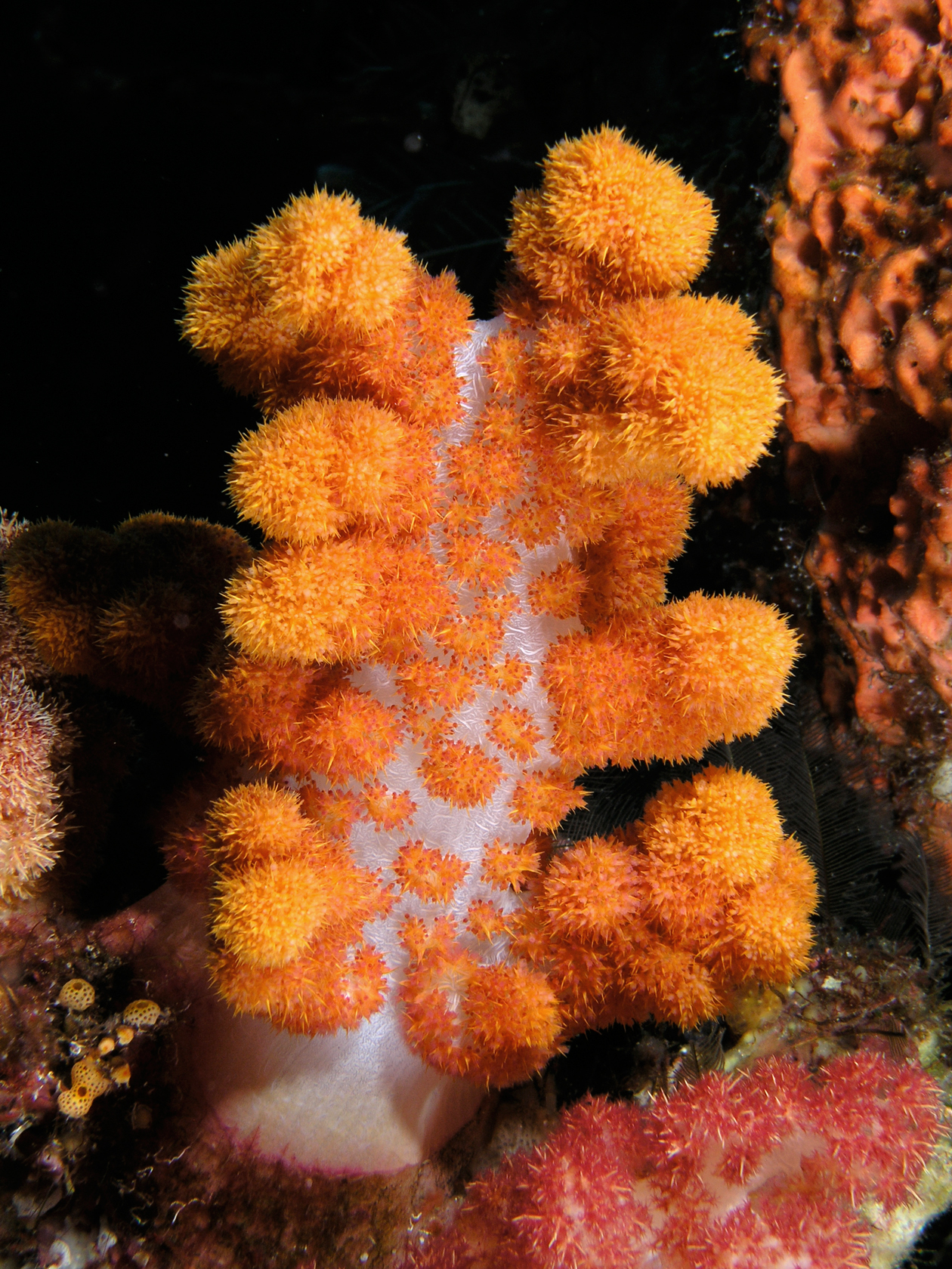 Peach colored soft coral (Dendronephthya sp.) in Komodo National Park.